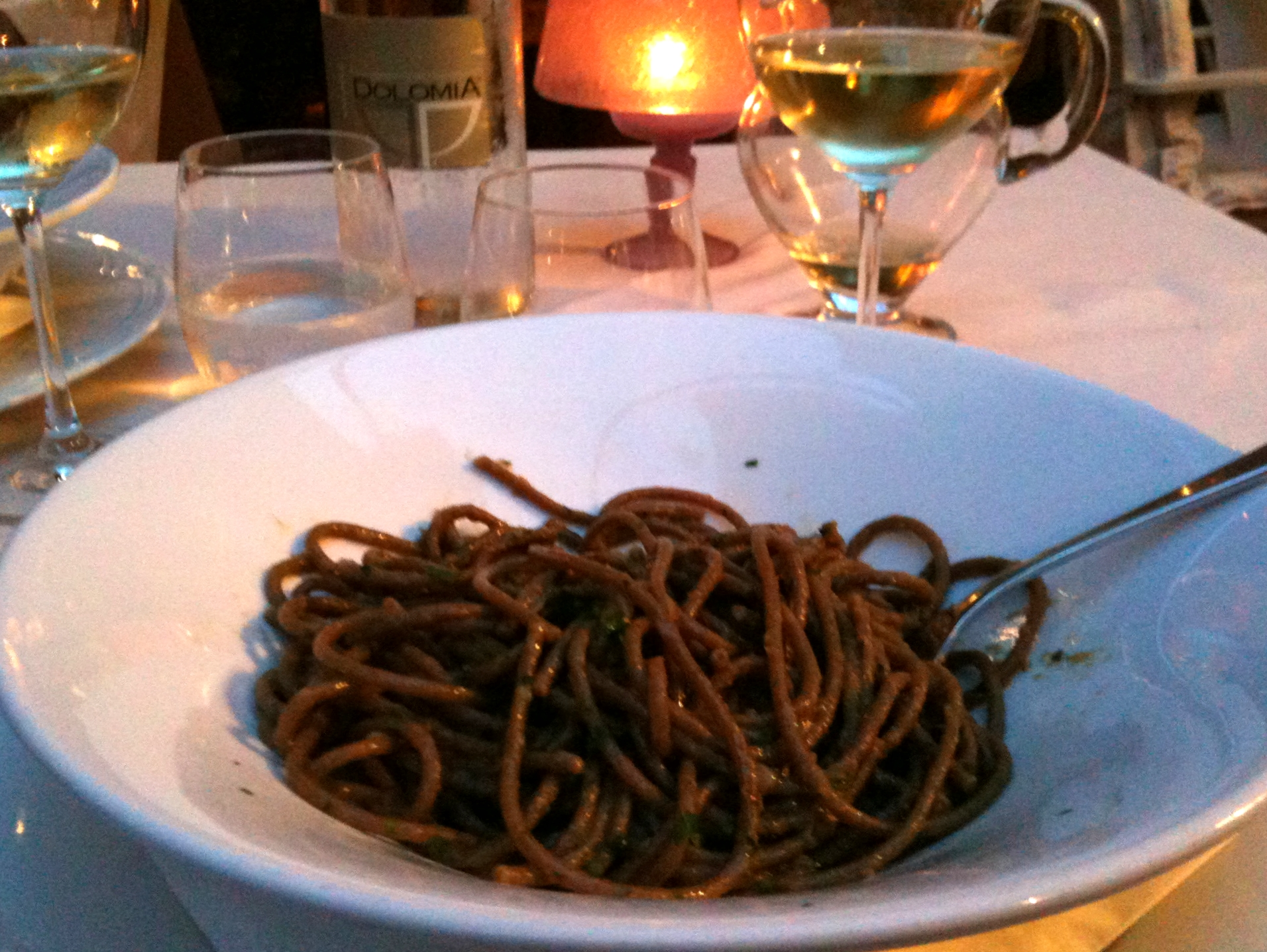 Bigoli with Anchovy Sauce at Ristorante Ribot, Venice